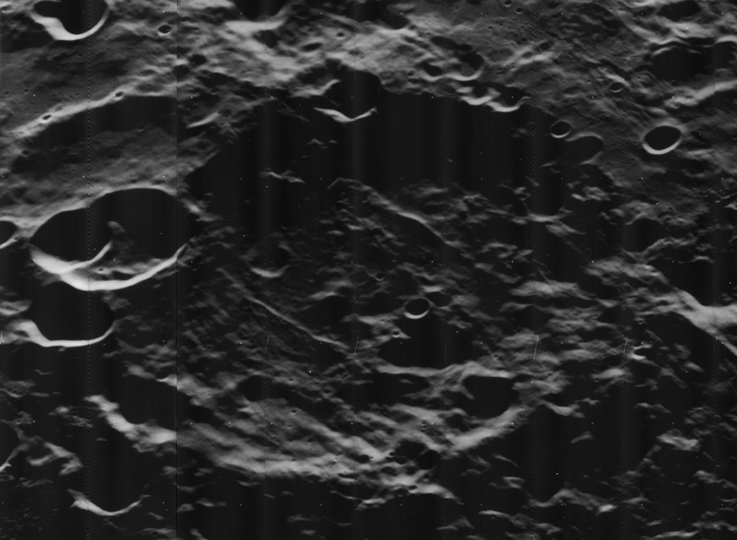 Oblique view of Blackett crater, on the far side of the moon, facing west.